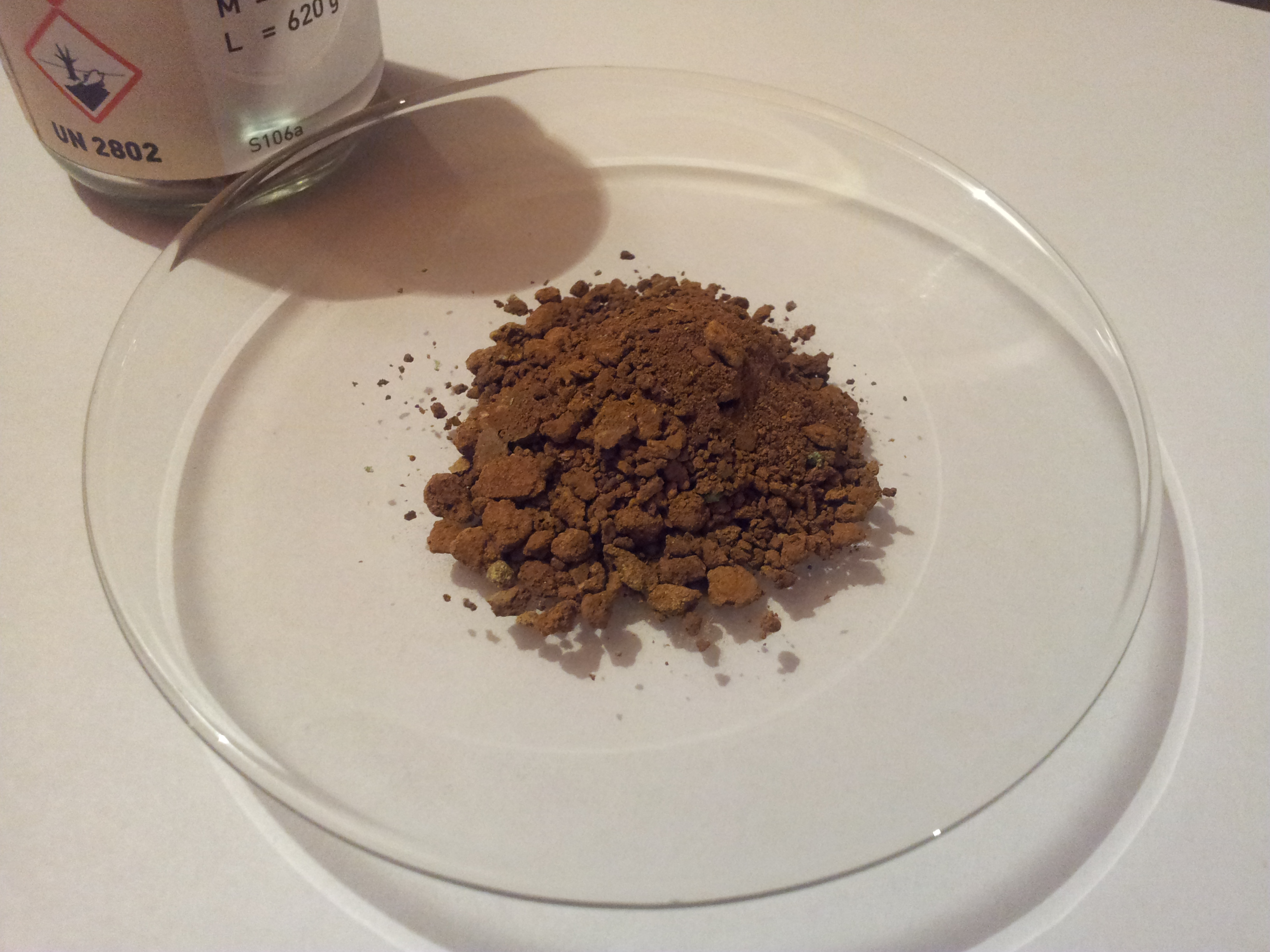 Anhydrous copper(II)-chloride